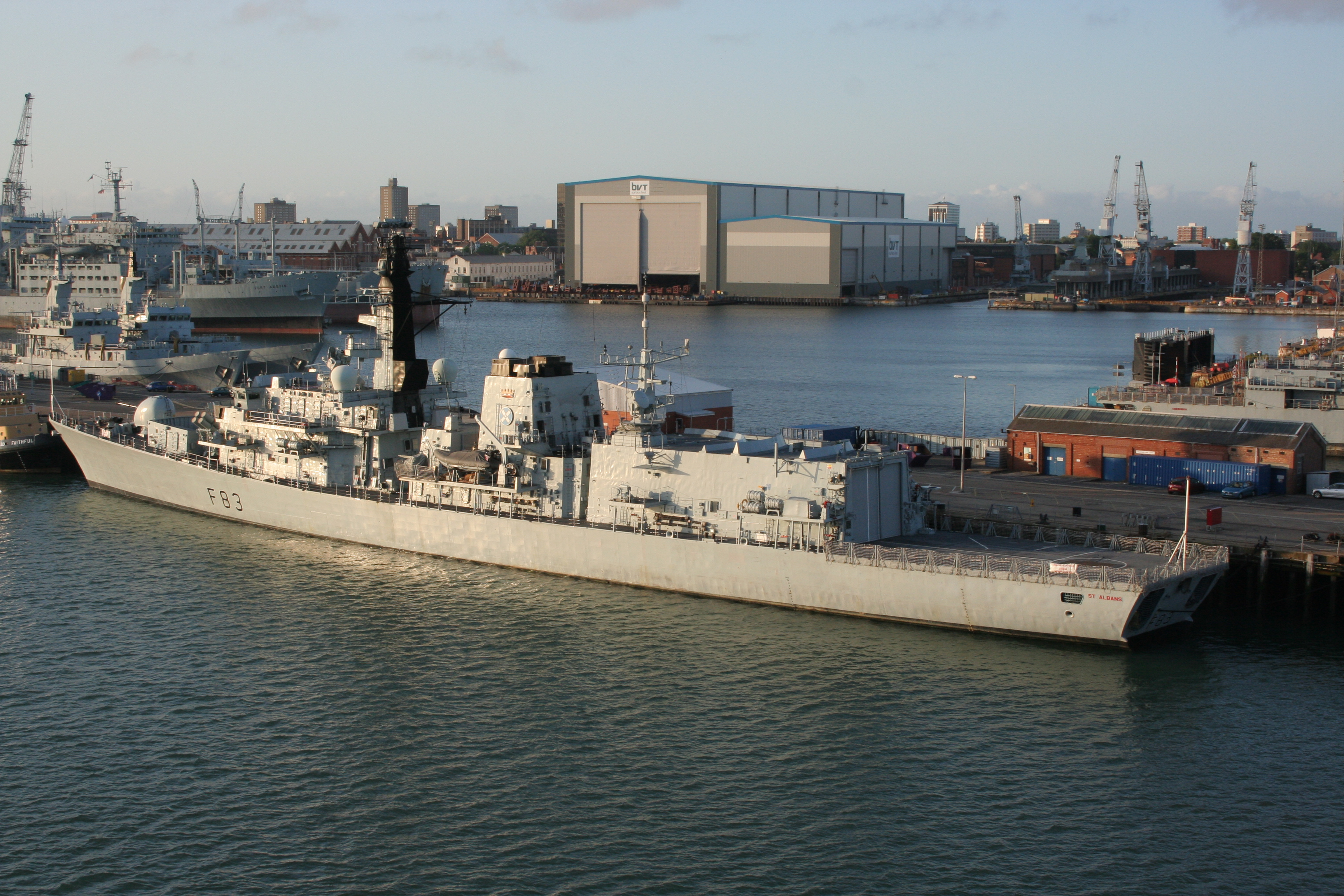 Royal Navy Duke class frigate HMS St Albans berthed at Portsmouth Naval Base, UK.